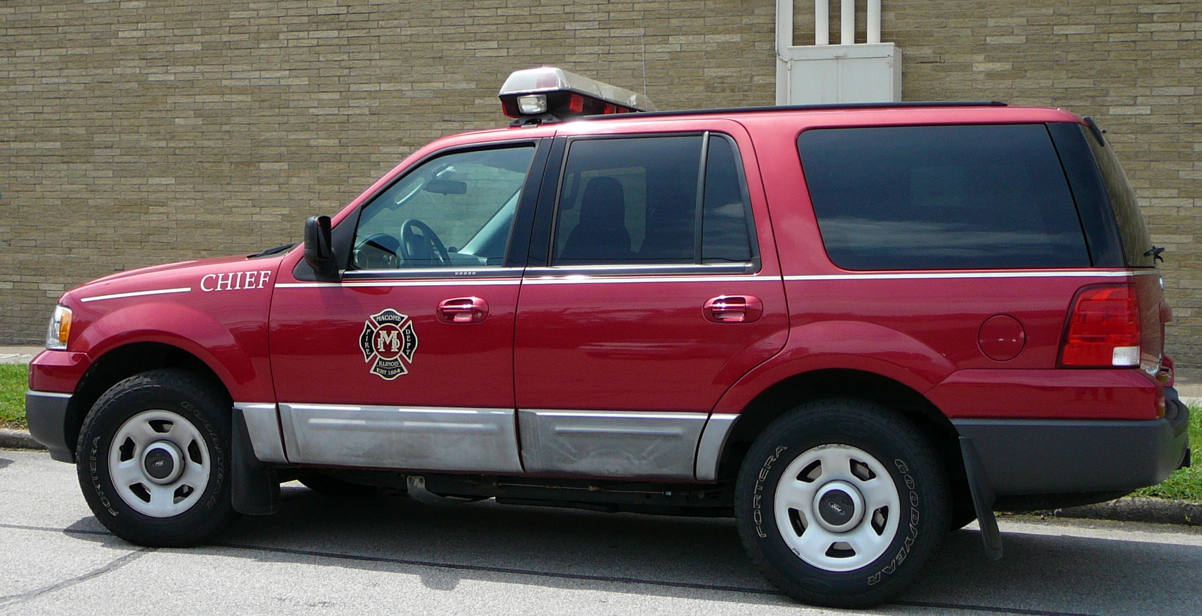 An official SUV of the Chief of the City of Macomb Fire Department, in Macomb, Illinois 61455